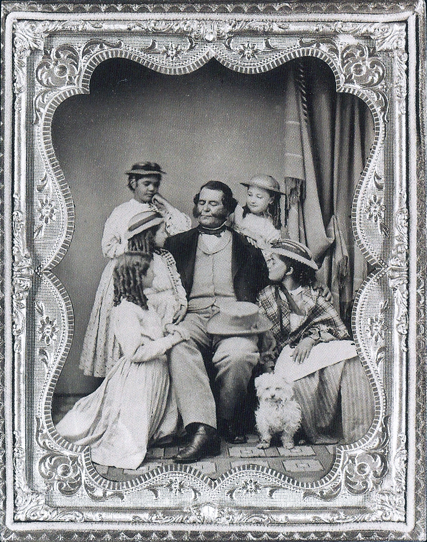 General Mariano Guadalupe Vallejo (1807–1890) with his daughters and granddaughters